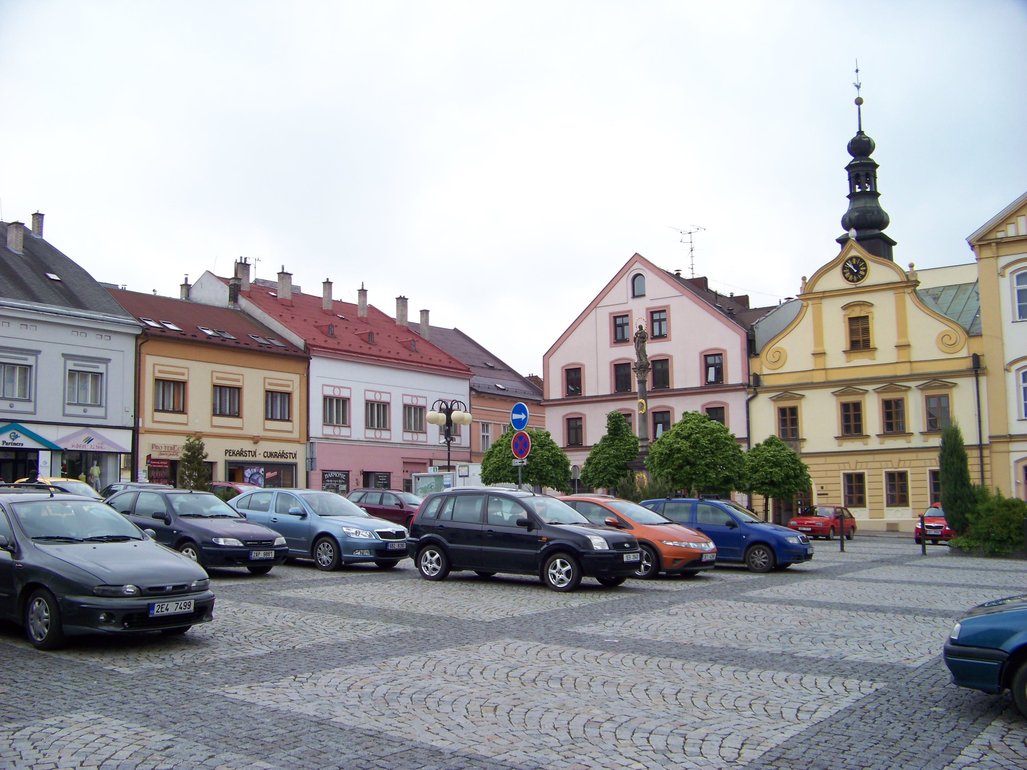 Česká Třebová, Ústí nad Orlicí District, Pardubice Region. Staré náměstí 46–50, 76, 77. - OpenStreetMap(Info)